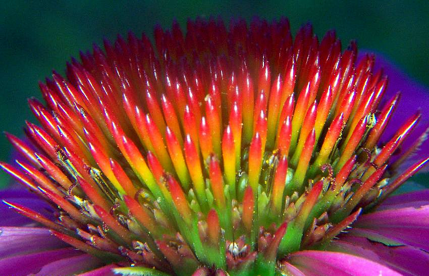 Purple Coneflower Echinacea purpurea Family: Asteraceae / Wild purple coneflower plants photographed at Winfield IL. The genus name is from the Greek echino, meaning "hedgehog," an allusion to the spiny central disk pictured here.